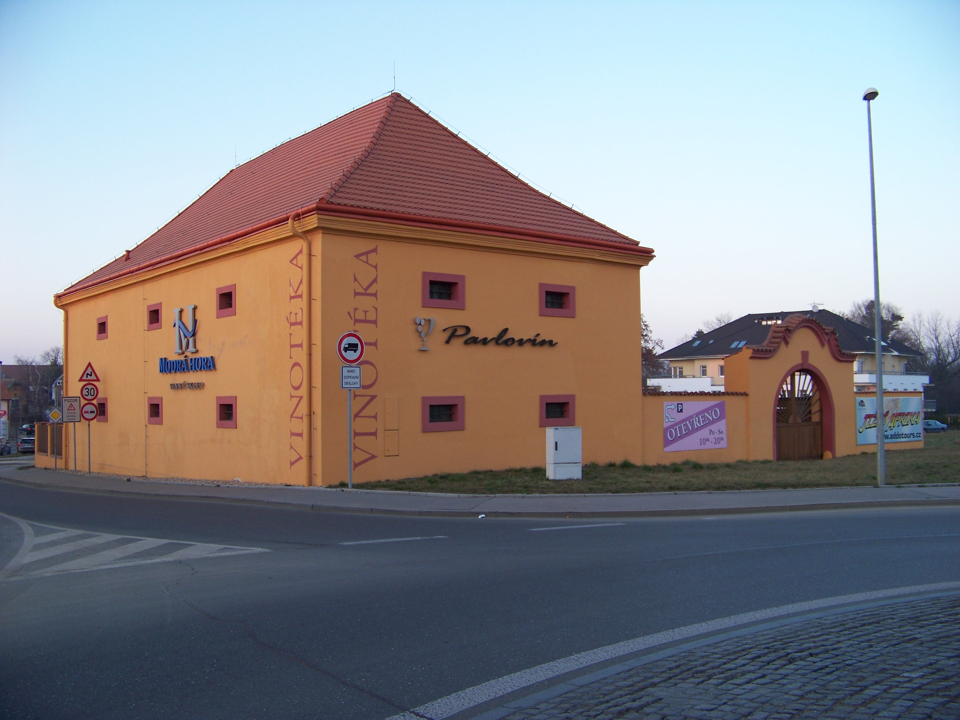 Prague-Pitkovice, Czech Republic. Žampiónová 193.